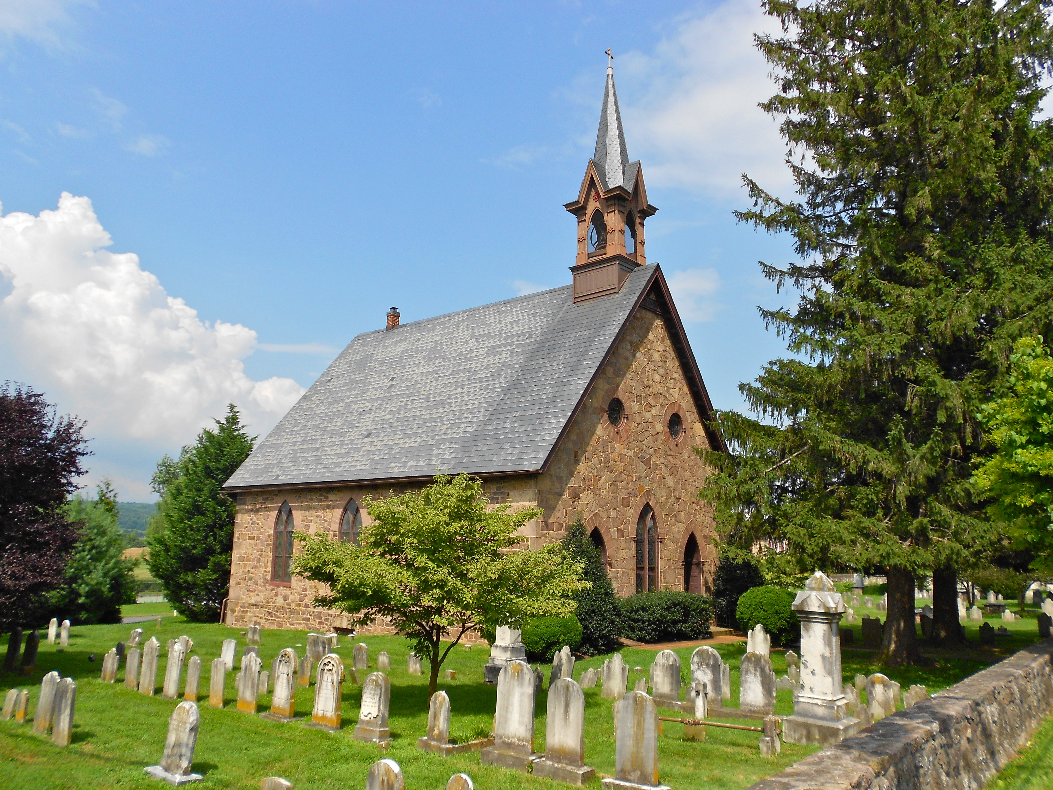 Bangor Episcopal Church on the NRHP since April 30, 1987. At the Northwestern corner of Main and Water Streets, Churchtown, Caernarvon Township, Lancaster County, Pennsylvania.